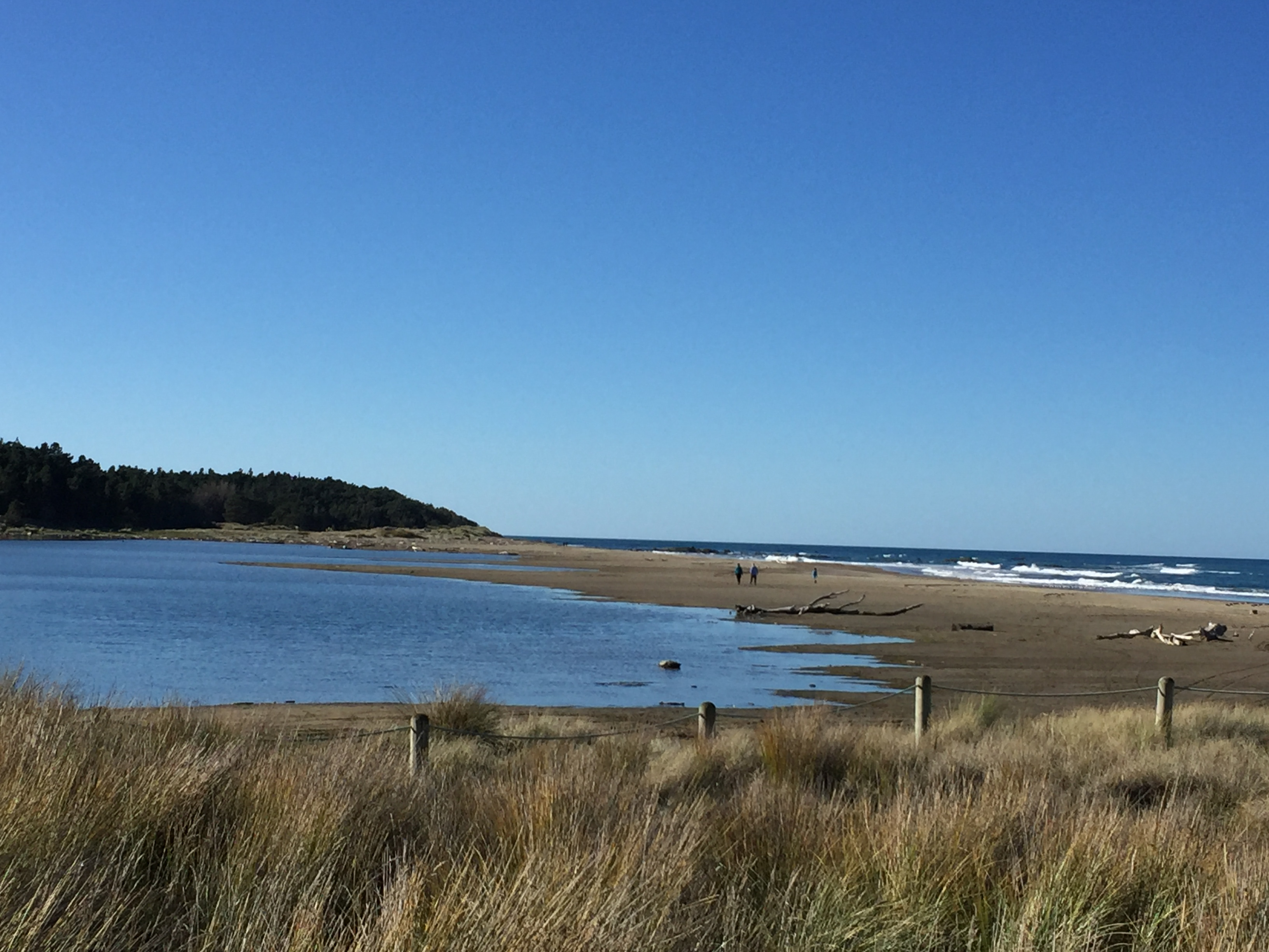 Lagoon looking near the waves.